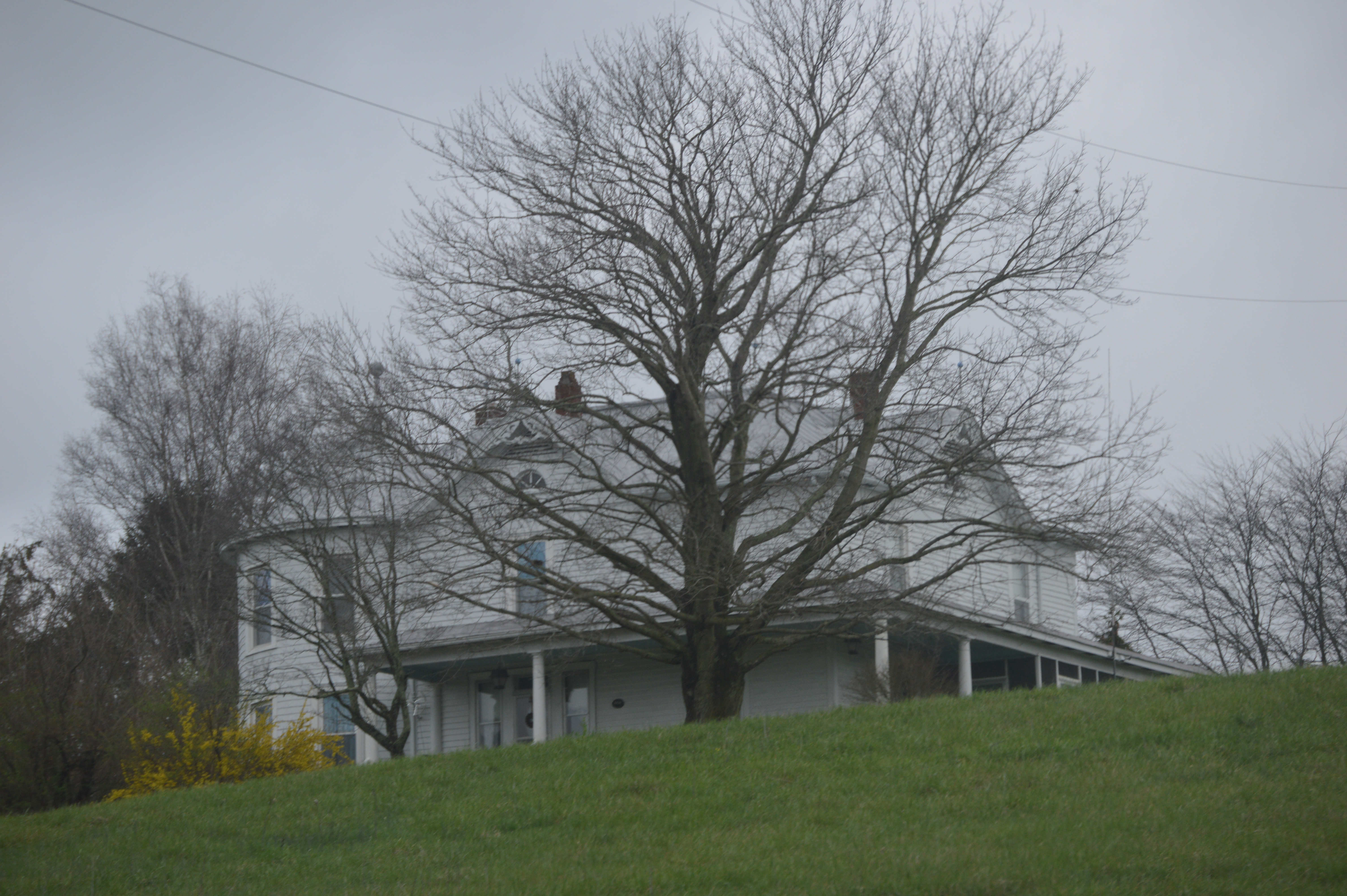 Roadside view of the Clarence Campbell House, located along West Virginia Route 3 east of Union in Monroe County, West Virginia, United States. Built in 1907, it is listed on the National Register of Historic Places.